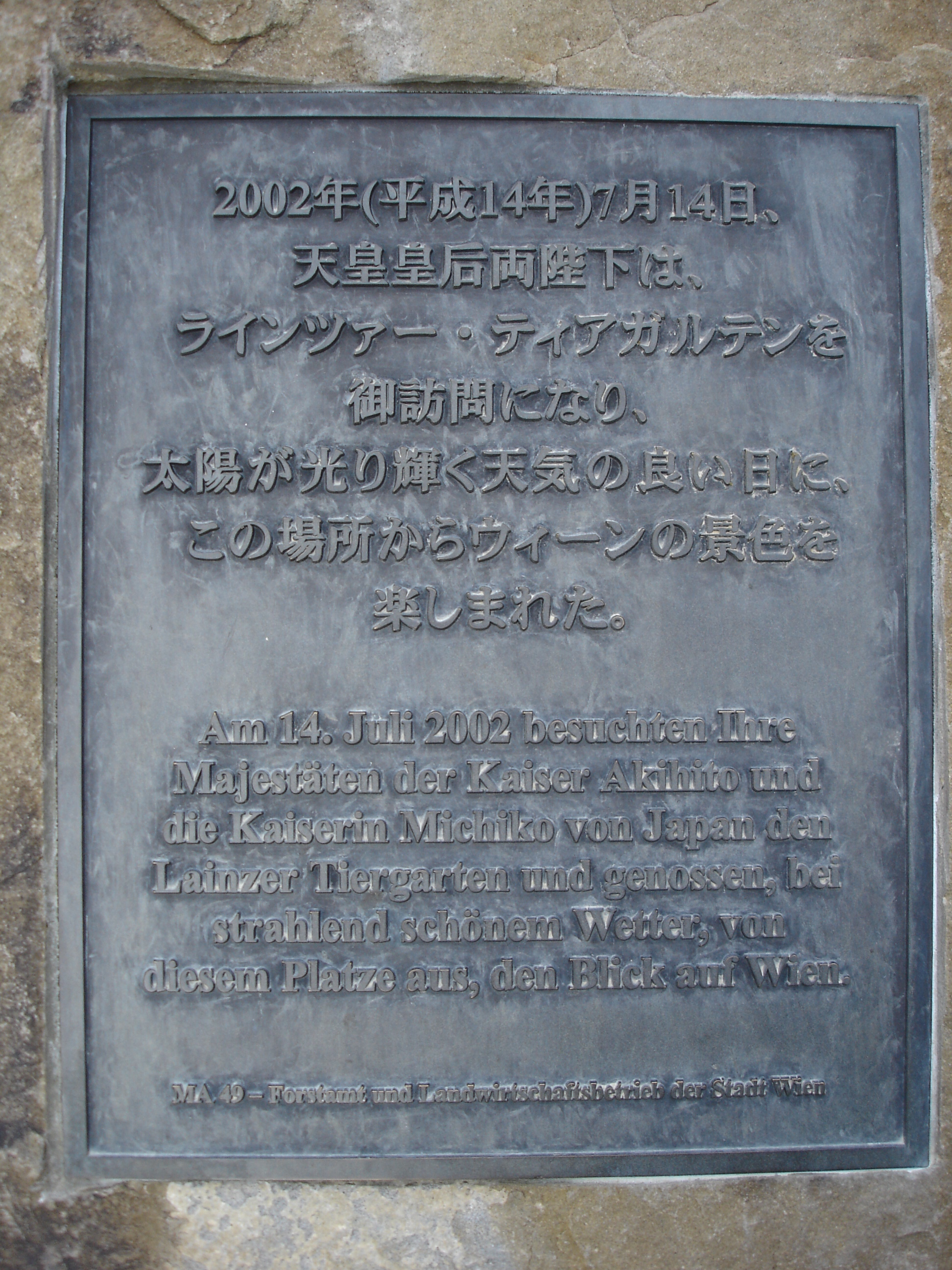 Plaque in Vienna's Lainzer Tiergarten commemorating a visit by Japanese Emperor Akihito and Empress Michiko.